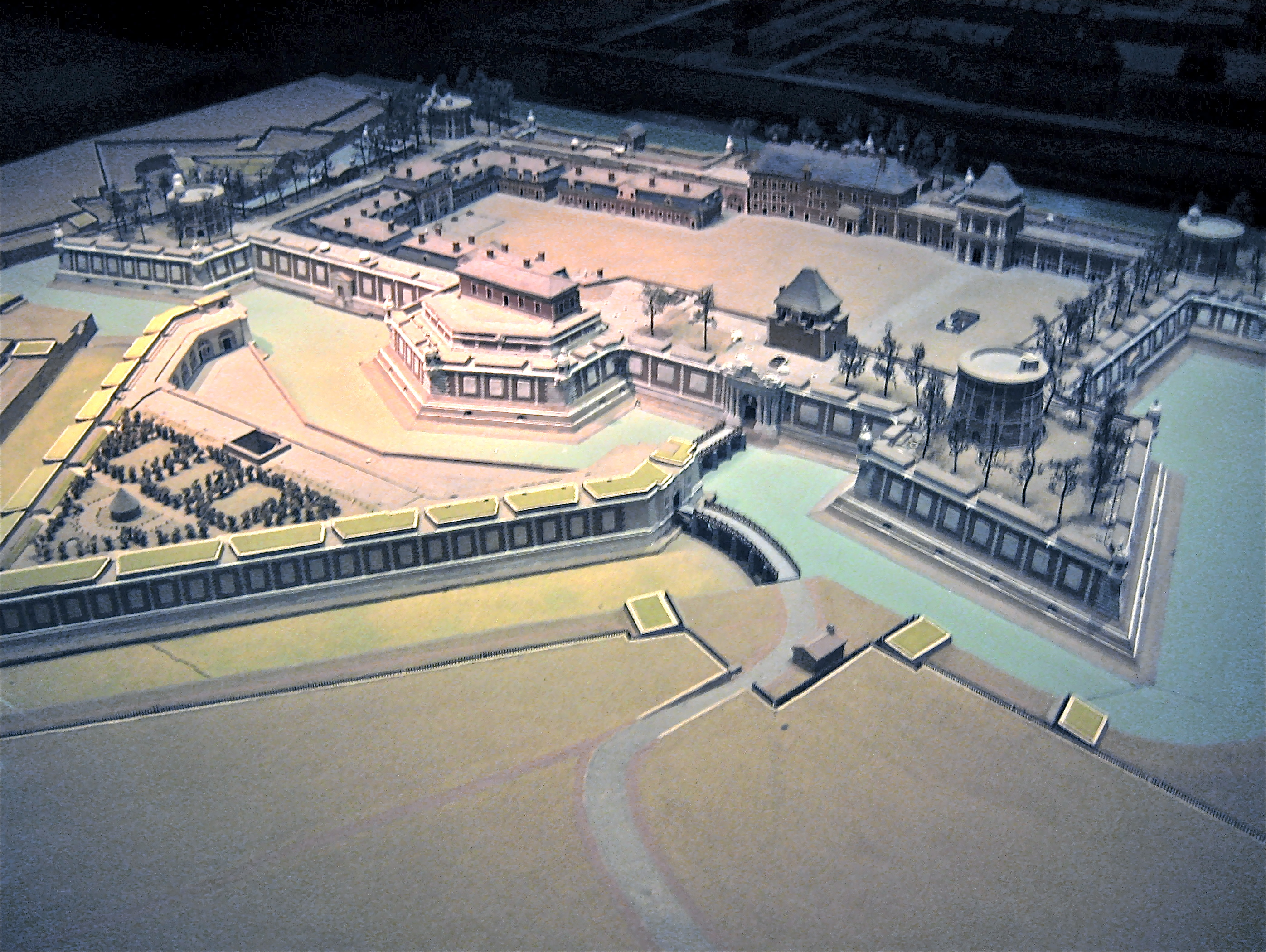 Relief map of Château Trompette (Bordeaux) from the Musée des Plans-Reliefs in Paris